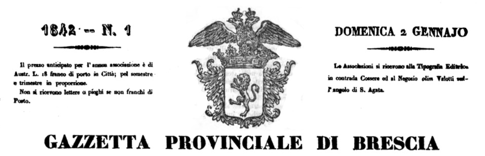 Nameplate of «Gazzetta provinciale di Brescia» of 2nd January 1842. «Gazzetta provinciale di Brescia» was the name of «Giornale della Provincia bresciana» from 1841 to 1843 and from 1853 to 1859.